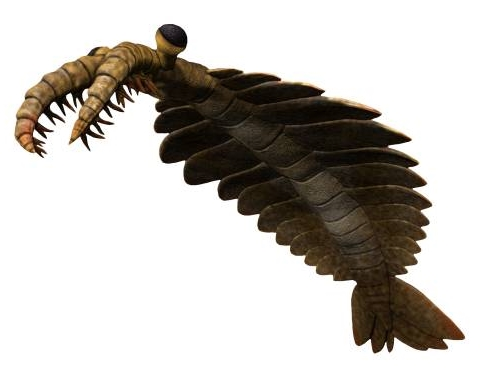 Life reconstruction of Anomalocaris canadensis